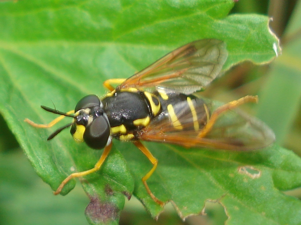 Chrysotoxum festivum